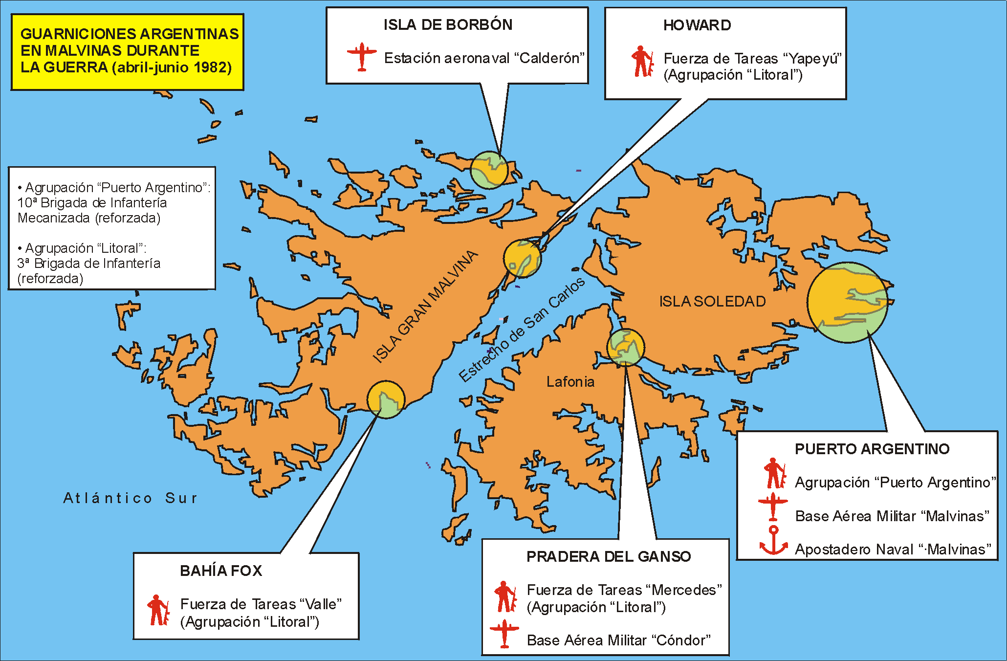 Garrisons of Argentine Armed Forces in Falklands (Islas Malvinas) during the Falklands war (april-june 1982)